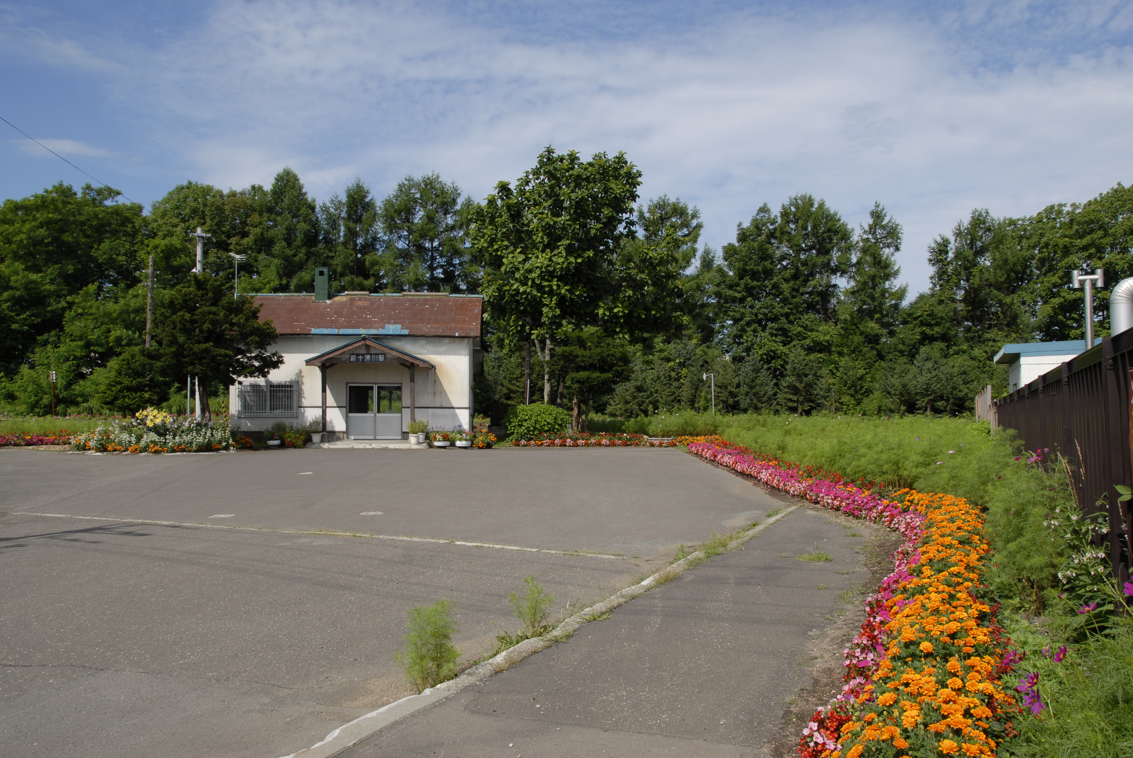 Shin-Totsukawa Station